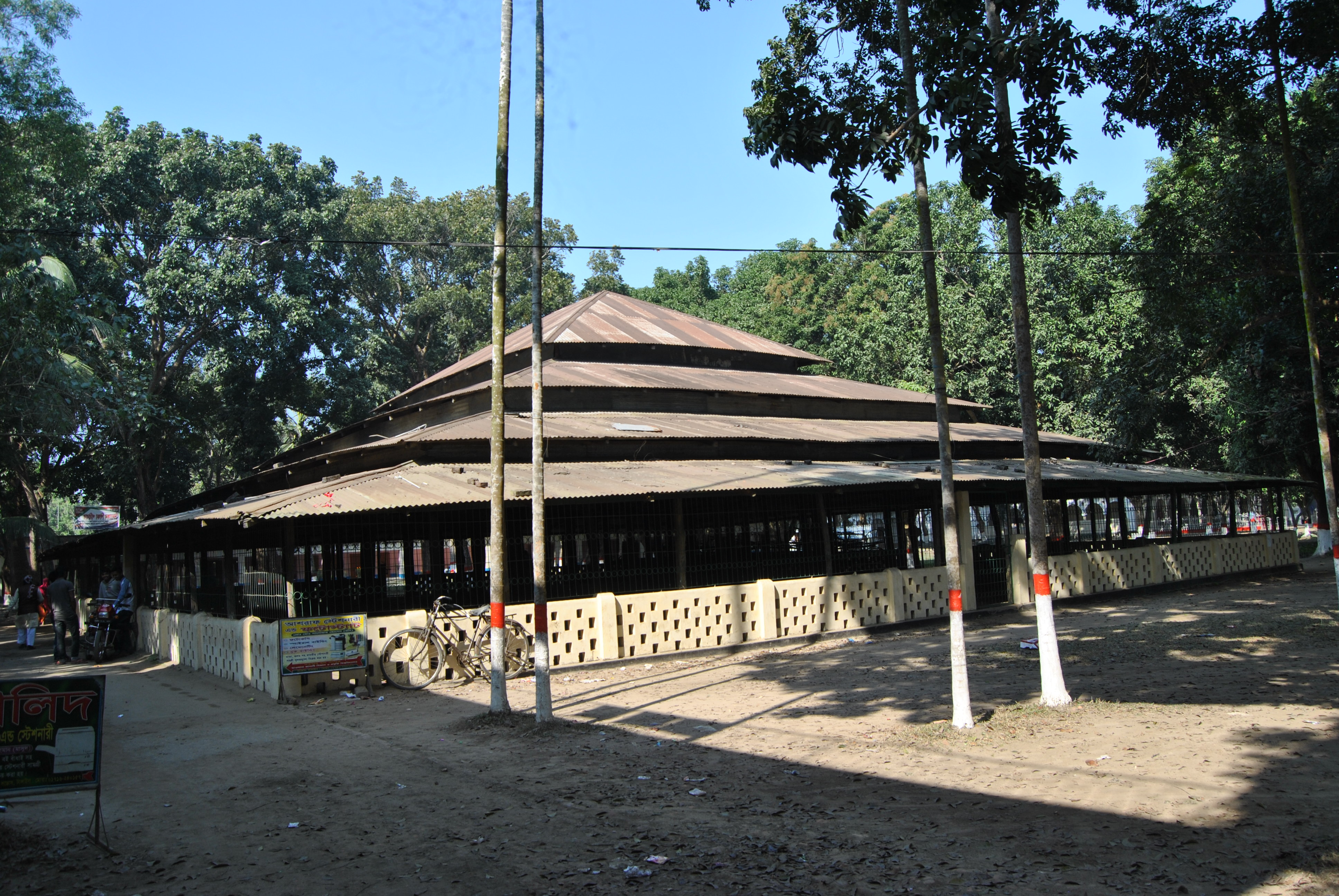 Dorbar hall, Mawlana Bhashani Science and Technology University